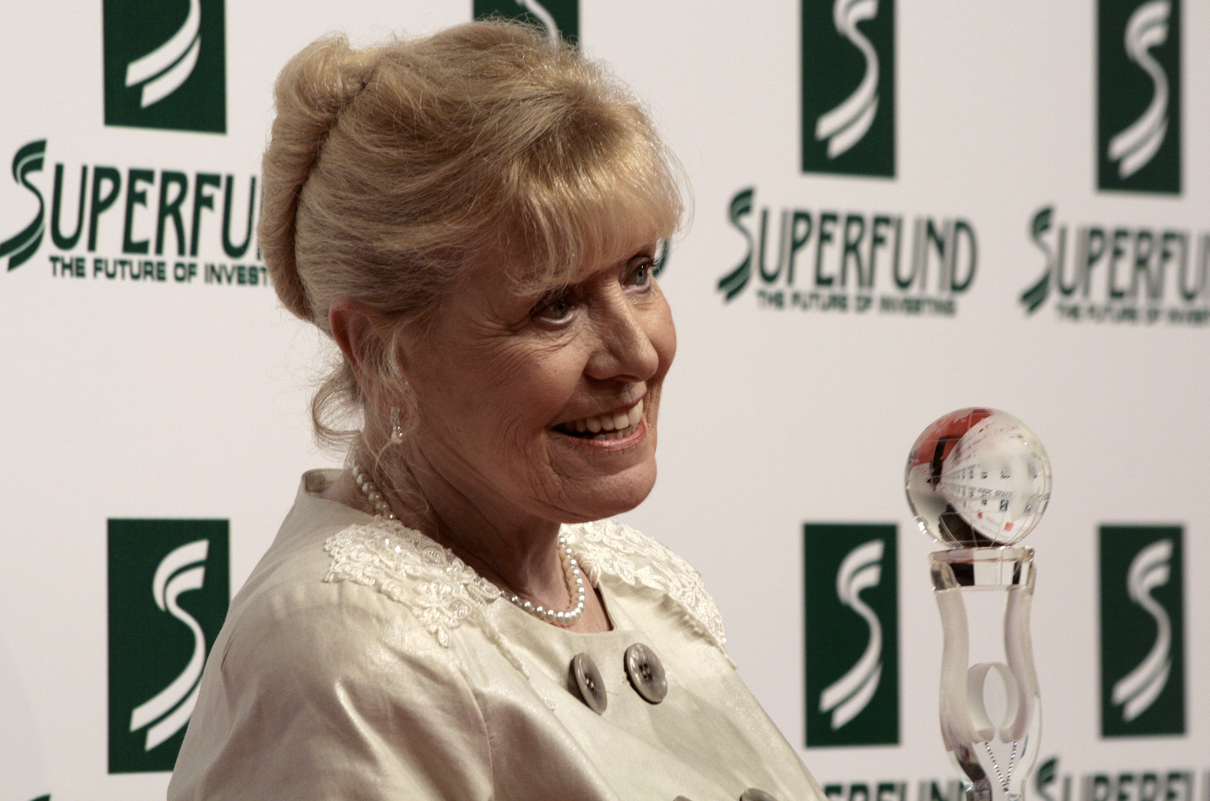 Betty Williams at the Women's World Award 2009 (Wiener Stadthalle, Vienna, Austria) where she recieved the 'World Achievement Award'.